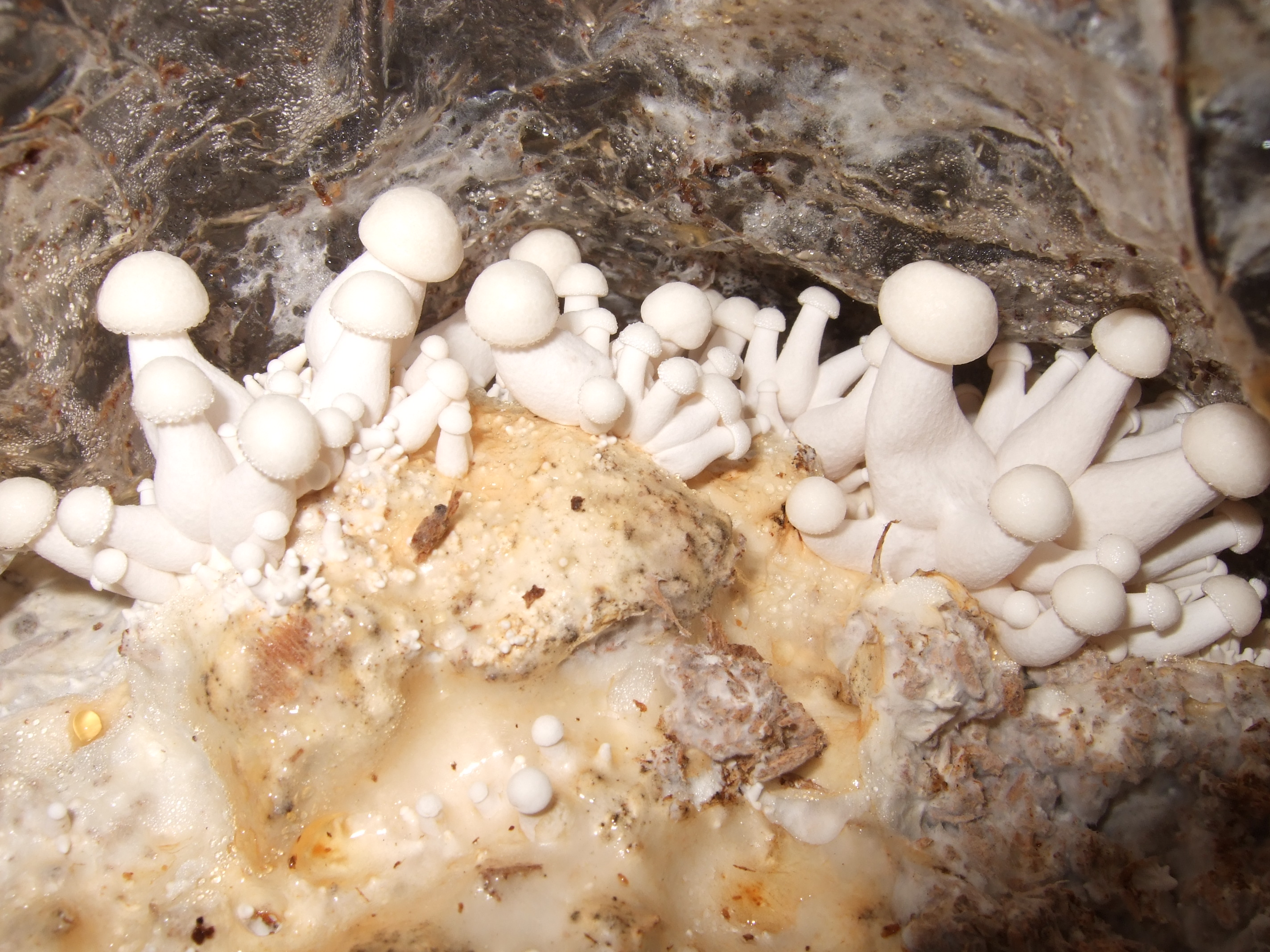 A white variety of the Beech Mushroom, Hypsizygus tessulatus growing on sawdust.